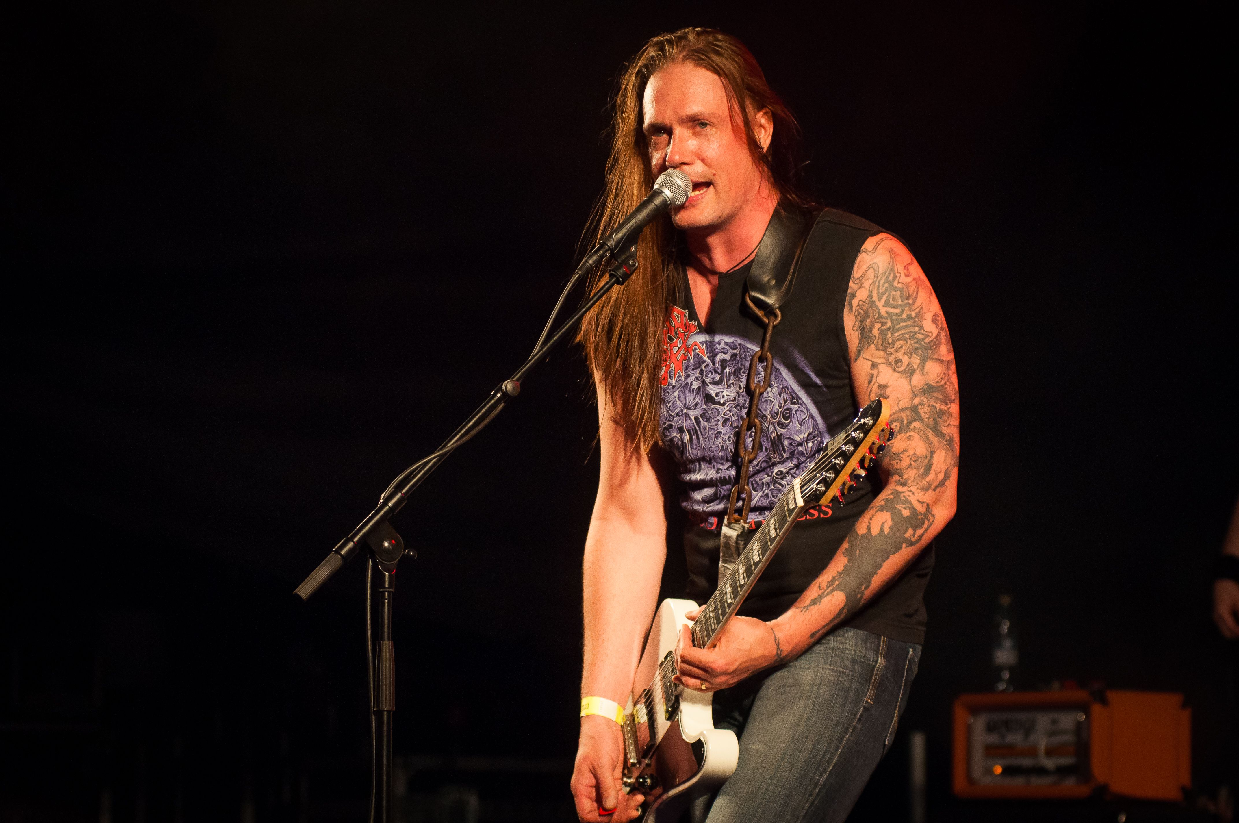 Finnish guitarist and vocalist Ville Laihiala of Poisonblack performing at the 2014 Rakuuna Rock festival in Lappeenranta, Finland.